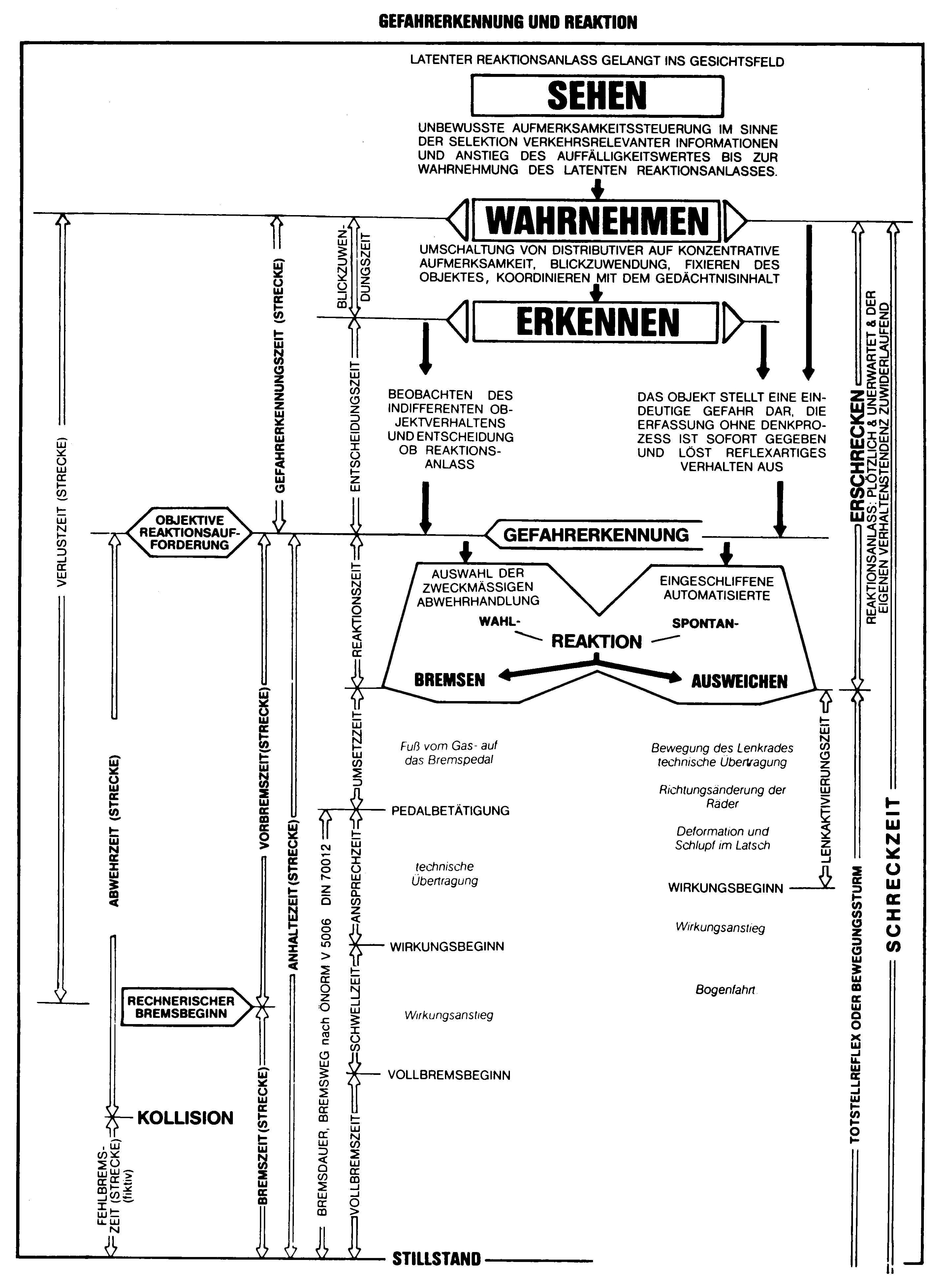 Diagram of reactionprocesses during information acquisition of car drivers